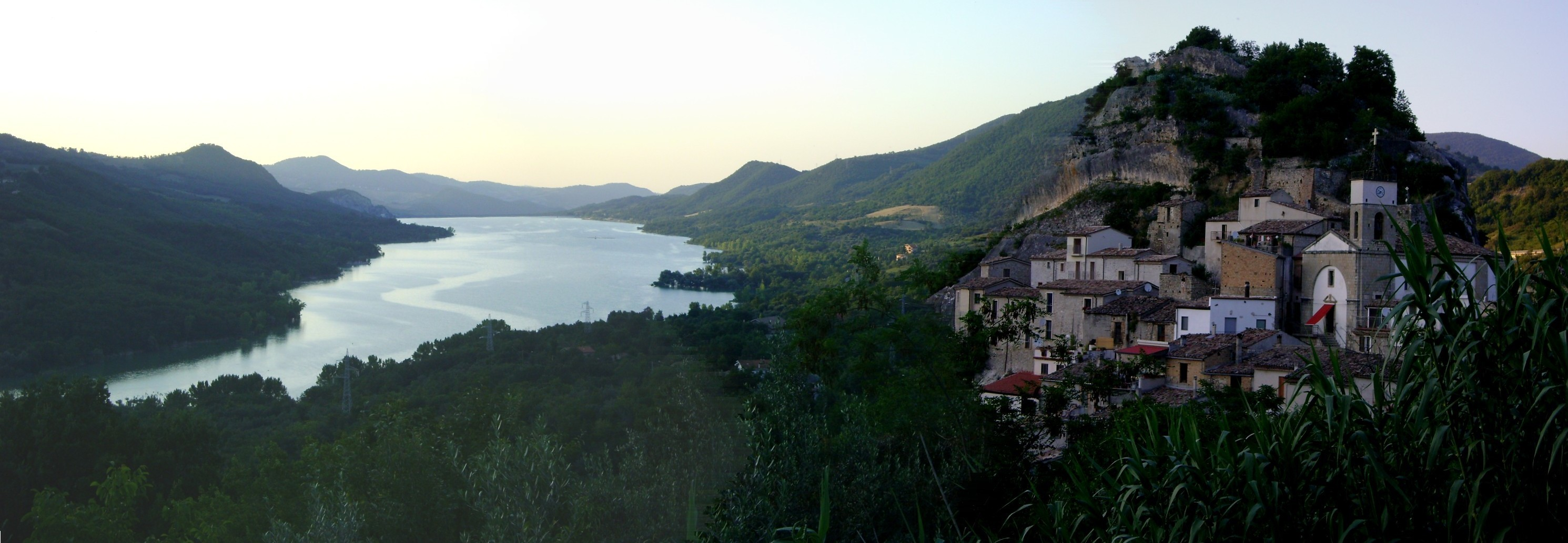 Panoramic view of Pietraferrazzana, province of Chieti, Italy